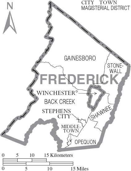 Map of Frederick County, Virginia, United States with municipal and magisterial boundaries